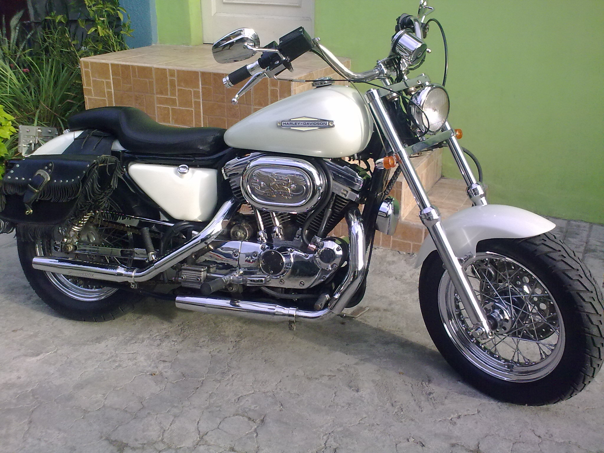 Photo of a modified Harley-Davidson Sportster owned by the author's father.